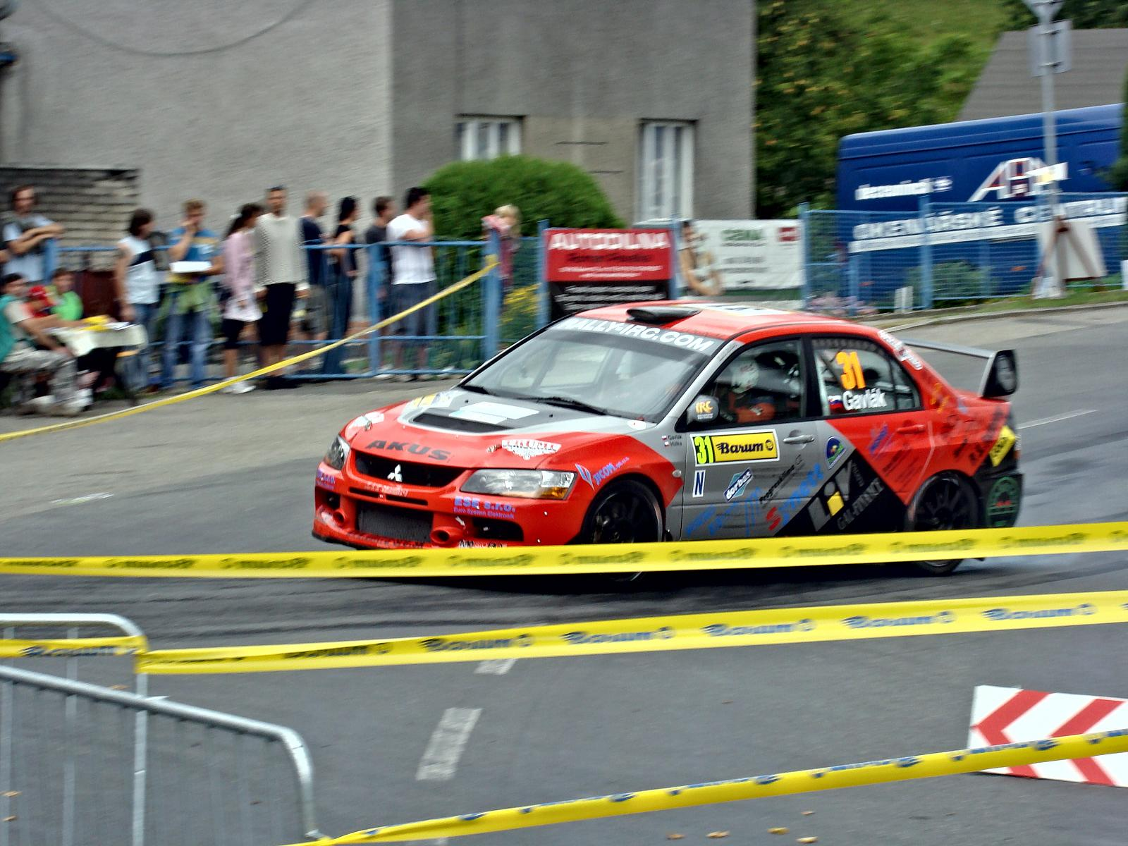 Barum Rally Zlín in 2008